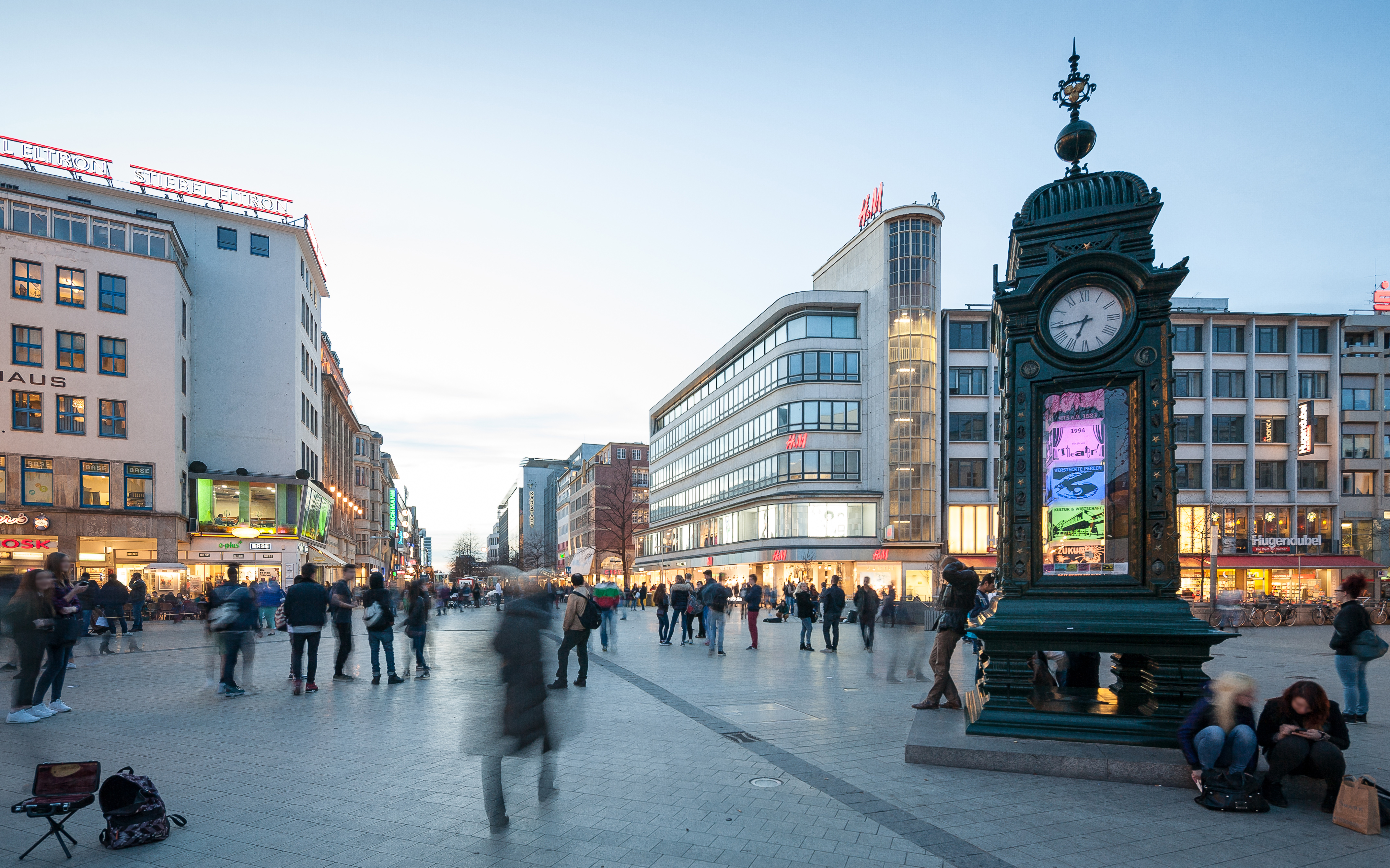 Kroepcke square in the center of Hanover, Germany.